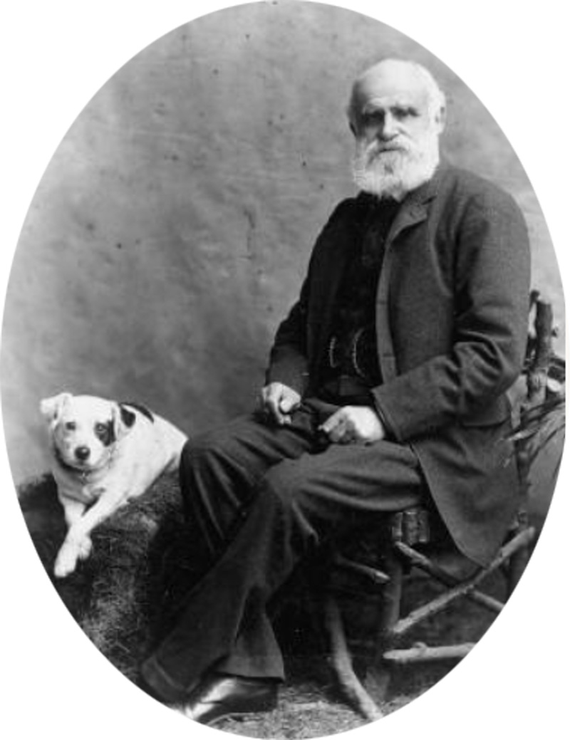 William Gisborne, owner of Allestree Hall circa 1895